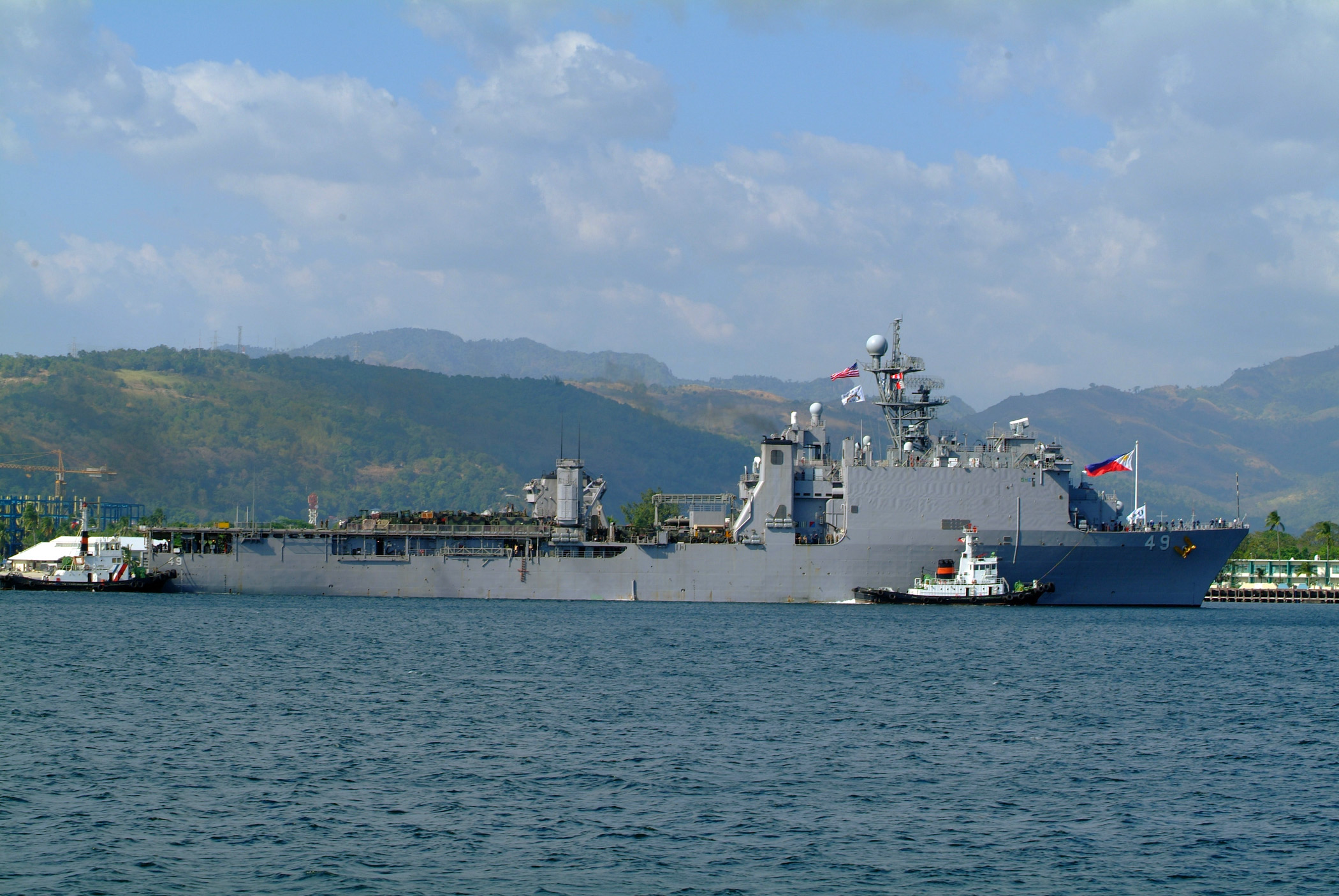 Subic Bay, Philippines (Feb. 17, 2006) - The dock landing ship USS Harpers Ferry (LSD 49) prepares to moor pier-side. Later that same day, Harpers Ferry returned to sea along with the amphibious assault ship USS Essex (LHD 2) en route to the Philippine Island of Leyte. Both ships were ordered into the area to provide much needed humanitarian assistance for the victims of a devastating landslide. Both ships are part of the Forward Deployed Amphibious Ready Group (ARG), the Navy’s only forward-deployed amphibious force, out of Sasebo, Japan. U.S. Navy photo by Journalist 2nd Class Brian P. Biller (RELEASED)